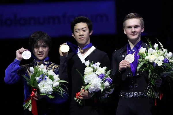 Photos – World Championships 2018 – Men (Medalists)